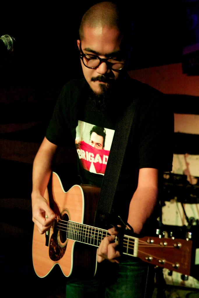 Musician Koji live on tour with one man band Into It. Over It., 2011.